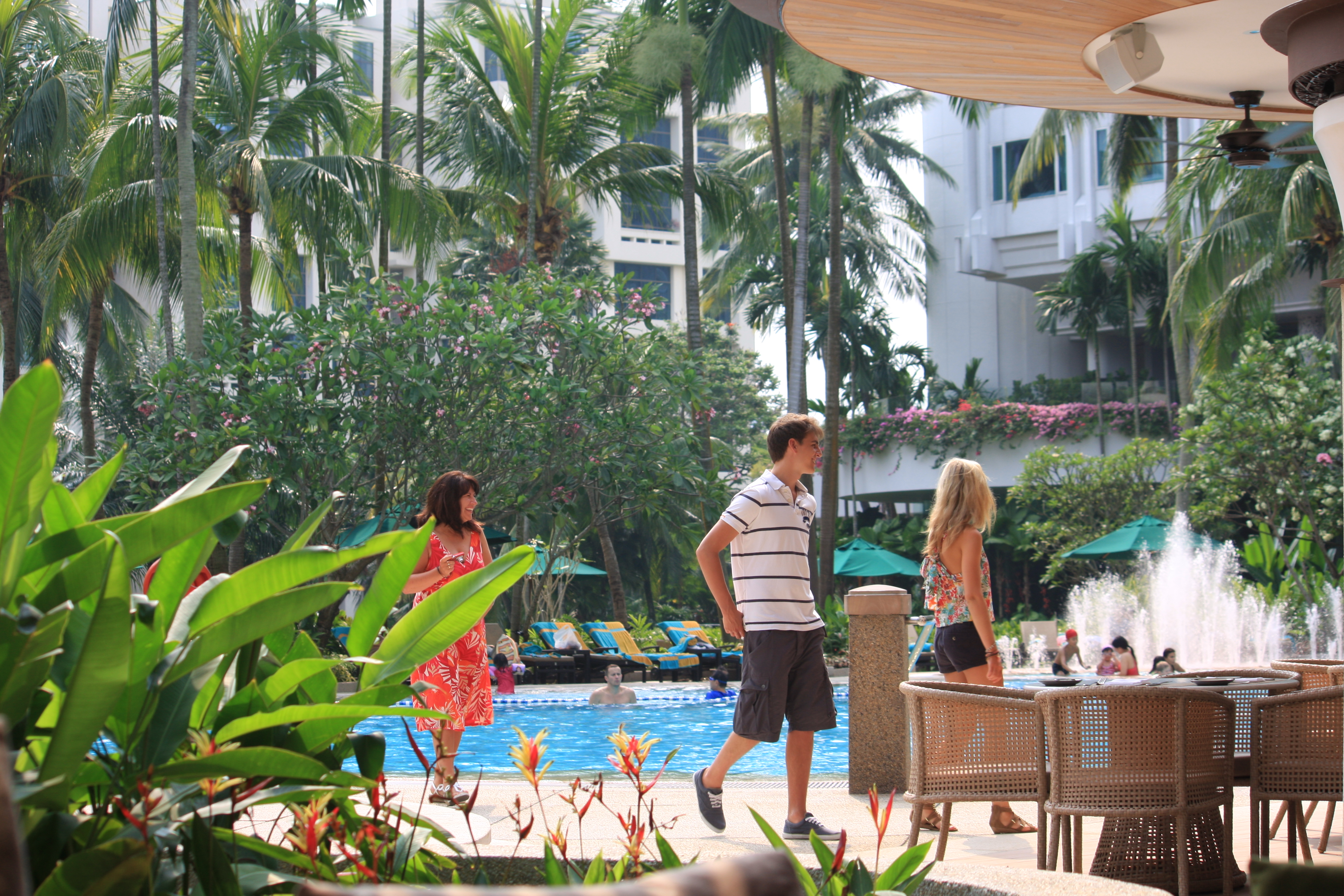 Breakfast time by the pool in the Shangri-La Hotel Singapore.